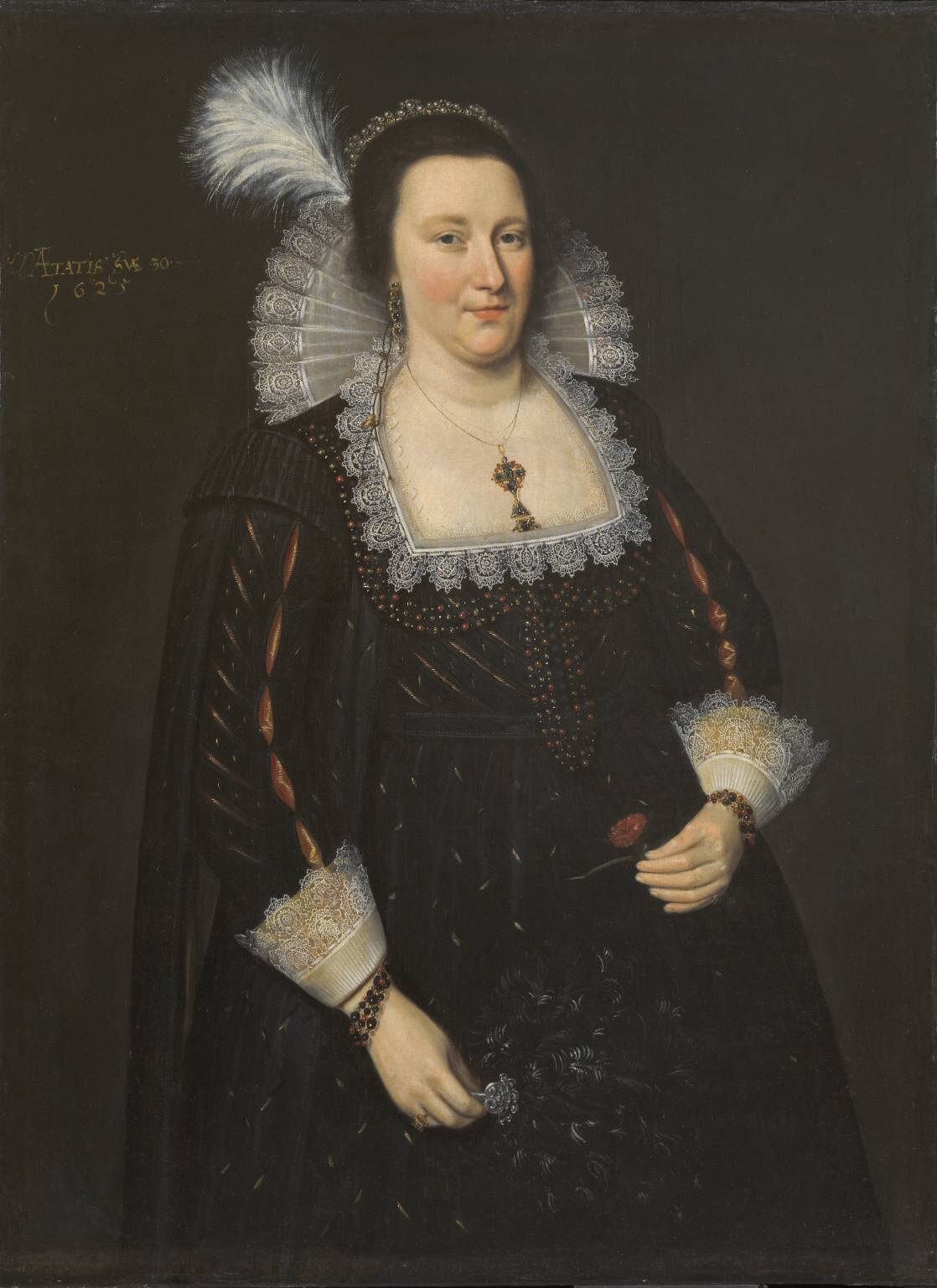 One of a pair of portraits, the other depicting her husband John, 2nd Earl of Wigtown, this is one of among 30 or so paintings that can be attributed to Adam de Colone, who was Netherlandish in origin.